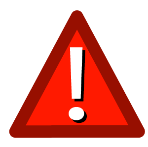 created by me user debivort, January 2006